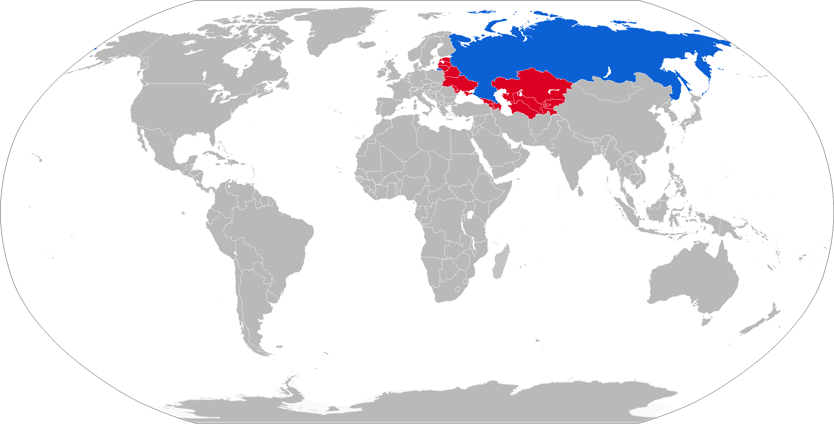 Map with RPG-26 operators in blue and former operators in red